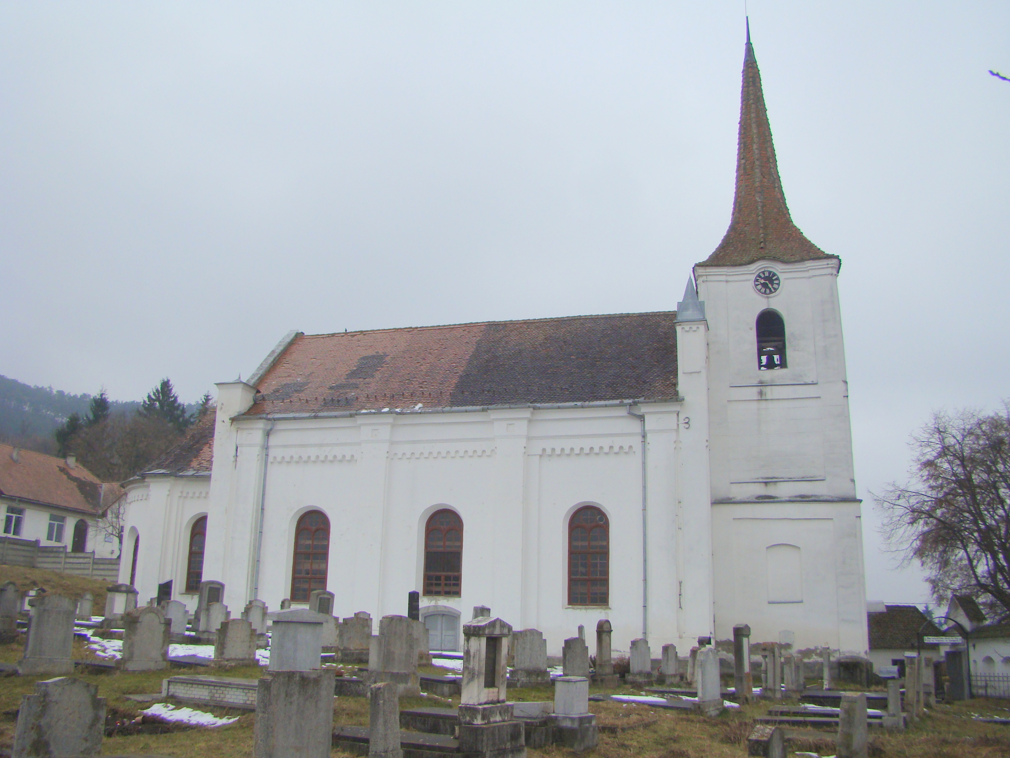 Lutheran church in Țigmandru, Mureș county, Romania